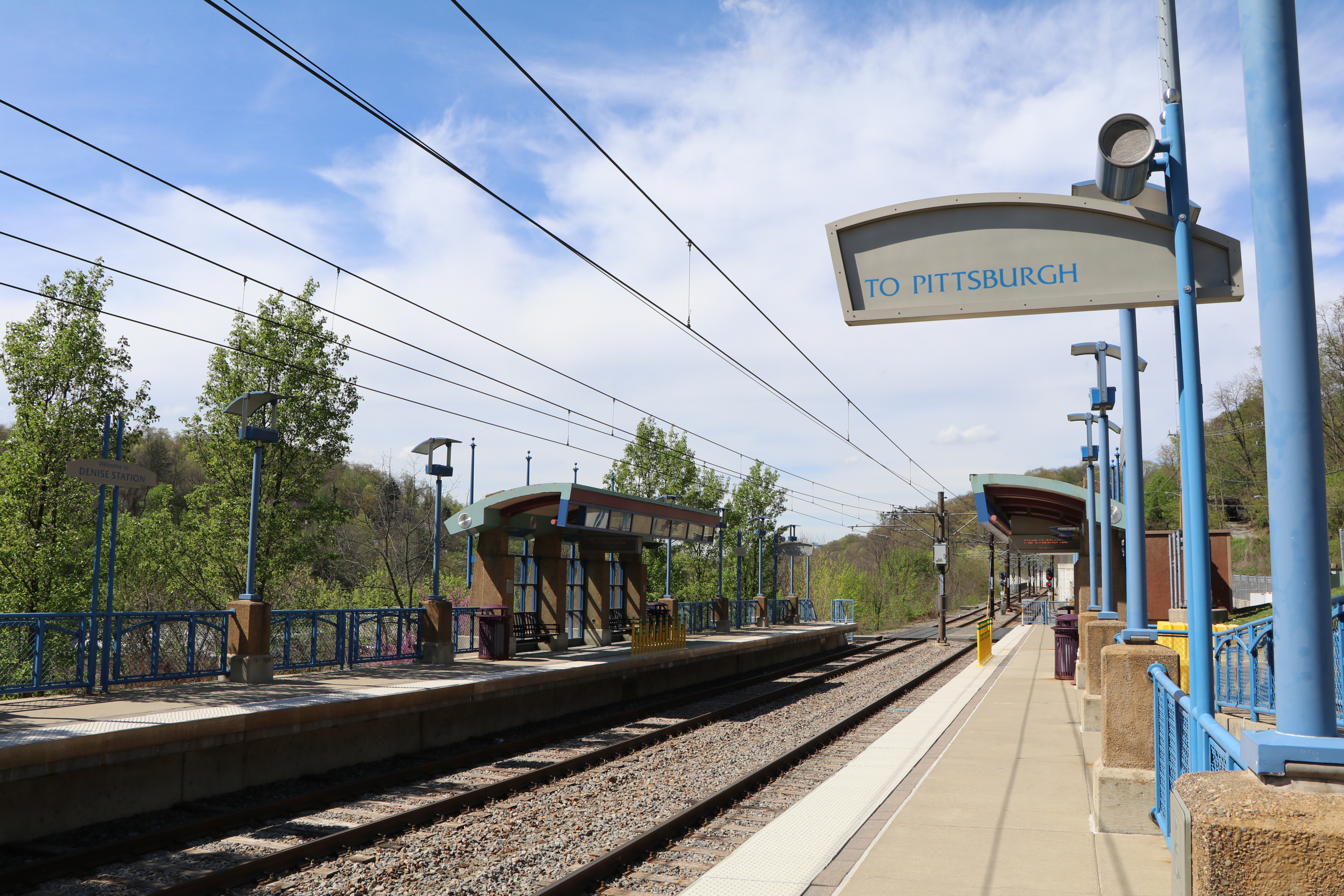 Denise station on the Blue Line, Pittsburgh, PA. View looking north, with the inbound platform on the right.